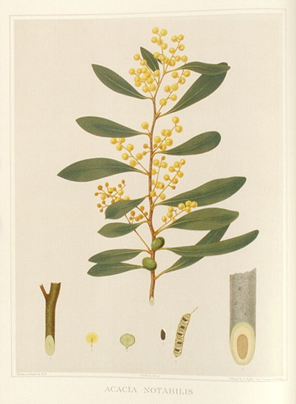 Example of botanical illustration by Australian artist Rosa Fiveash